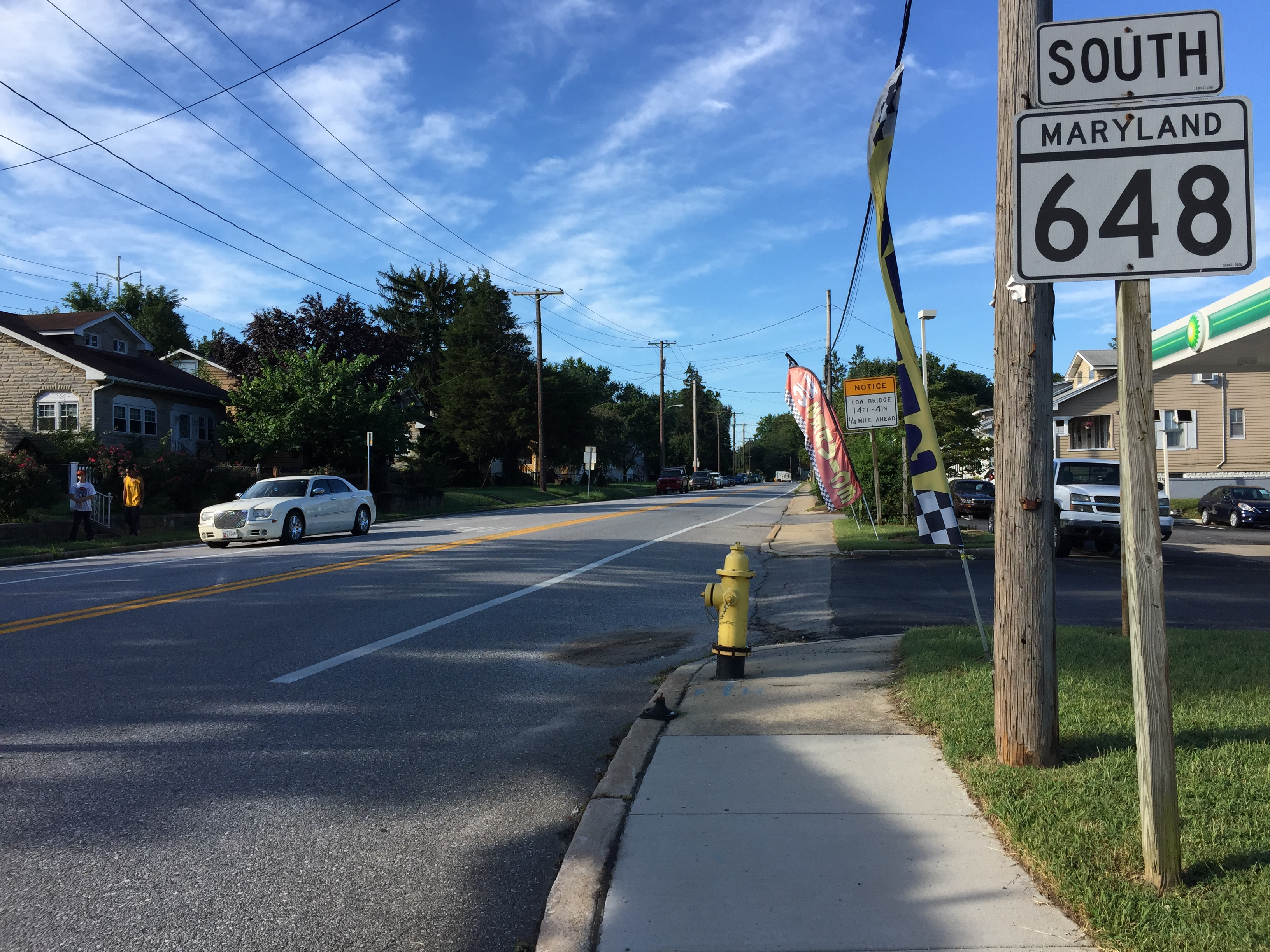 View south along Maryland State Route 648 (Baltimore-Annapolis Boulevard) at Maryland State Route 168 (Nursery Road) in Linthicum, Anne Arundel County, Maryland